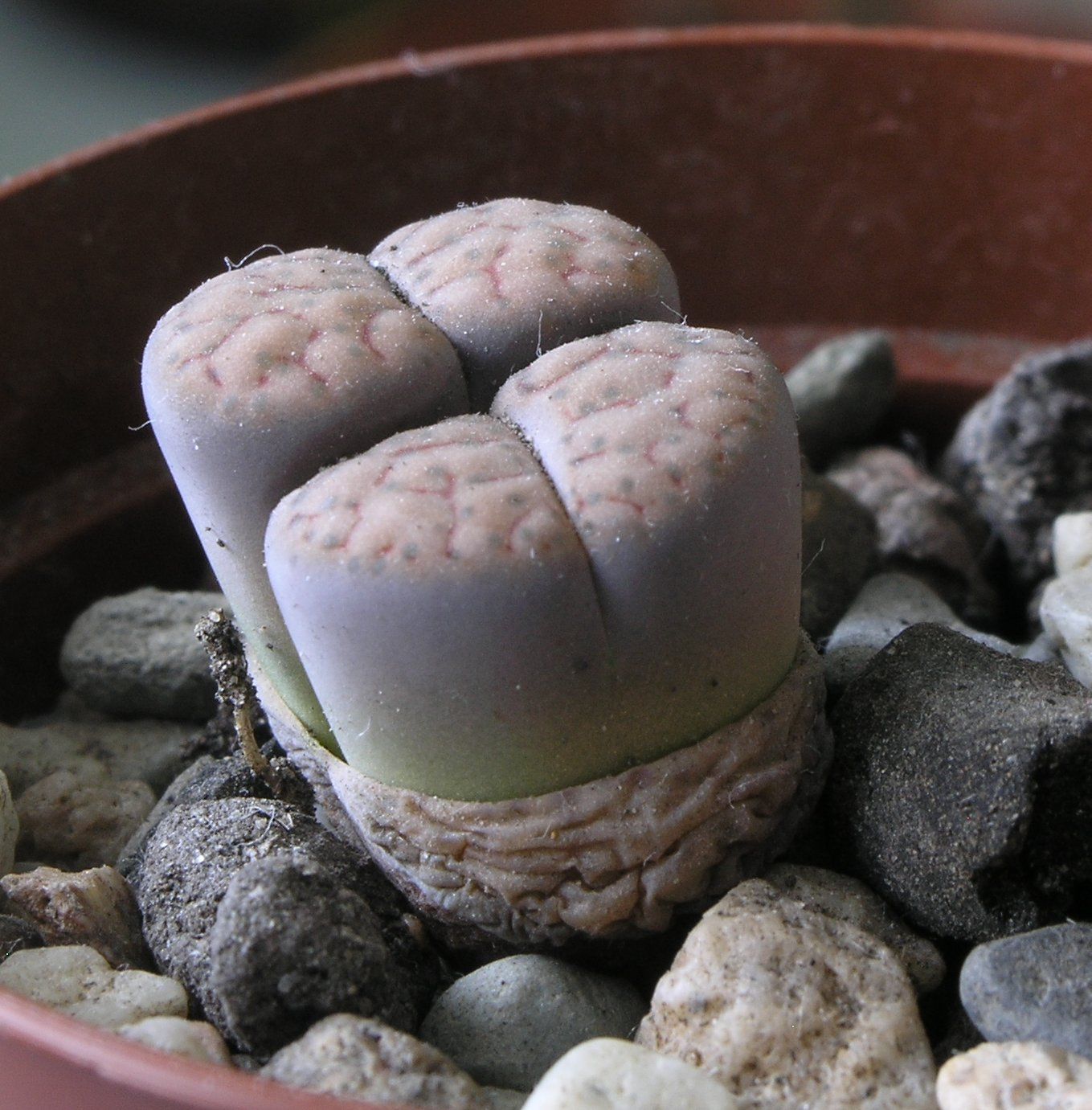 Lithops schwantesii (plant collection of Ivan I. Boldyrev, Berdsk, Russia)